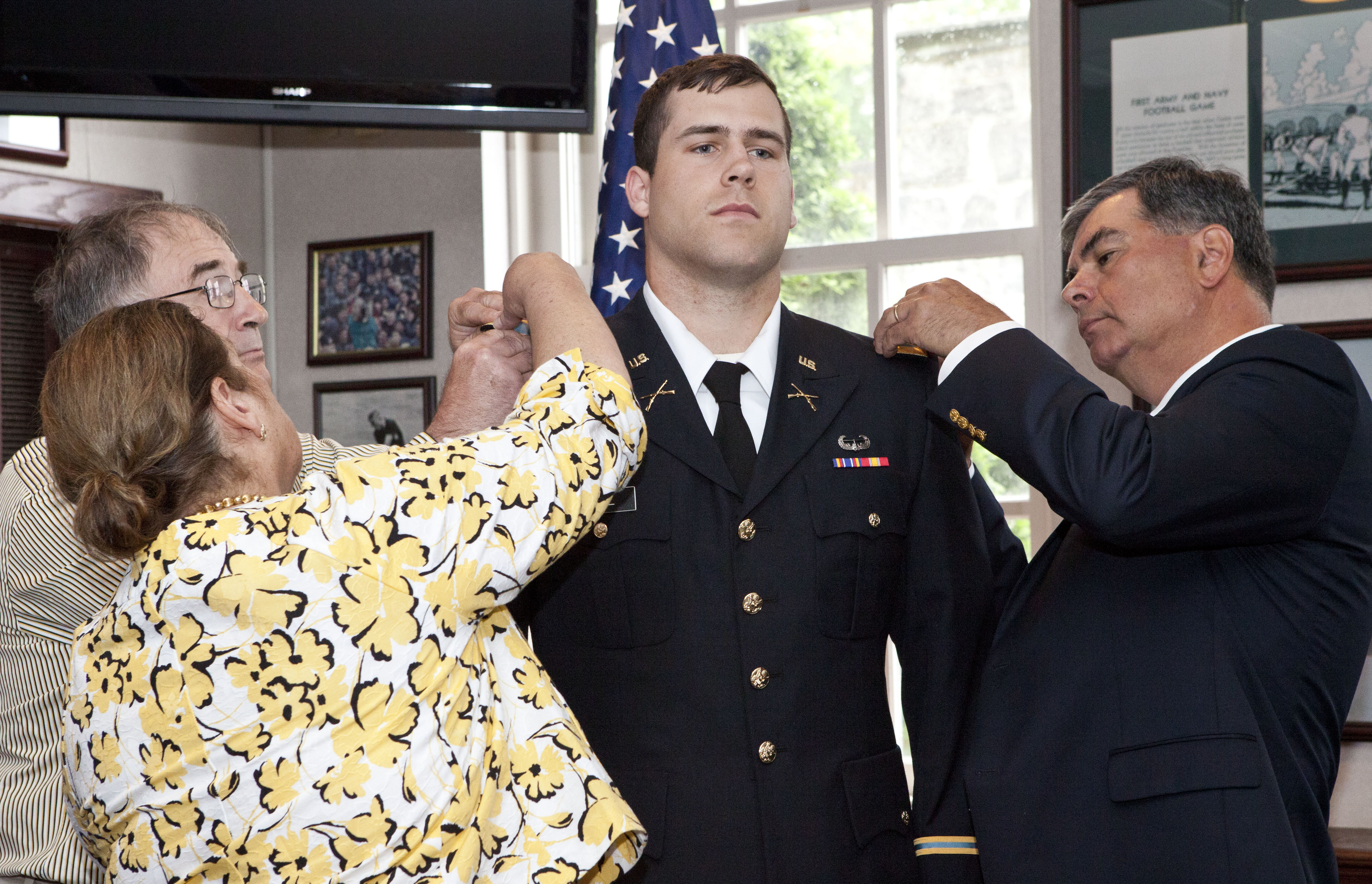 Friends and family pin rank on U.S. Army 2nd Lt. Thul during his commissioning ceremony after the United States Military Academy Graduation and Commissioning Ceremonies for the Class of 2013 at the Michie Stadium in West Point, NY, May 25, 2013. The Assistant Commandant of the Marine Corps, Gen. James M. Paxton, Jr., administered the Oath of Office during the ceremony.